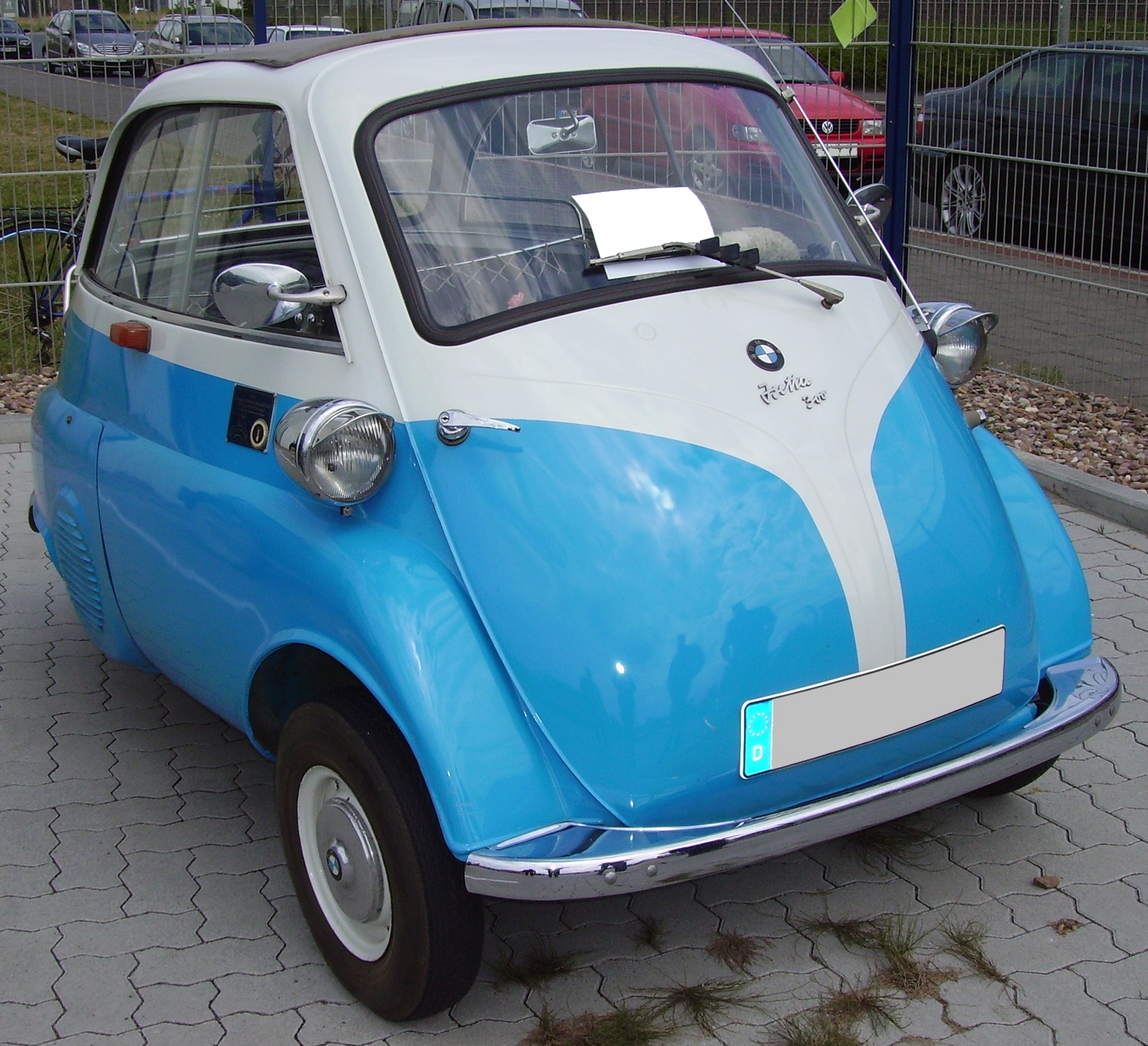 A BMW Isetta 300 built in 1958